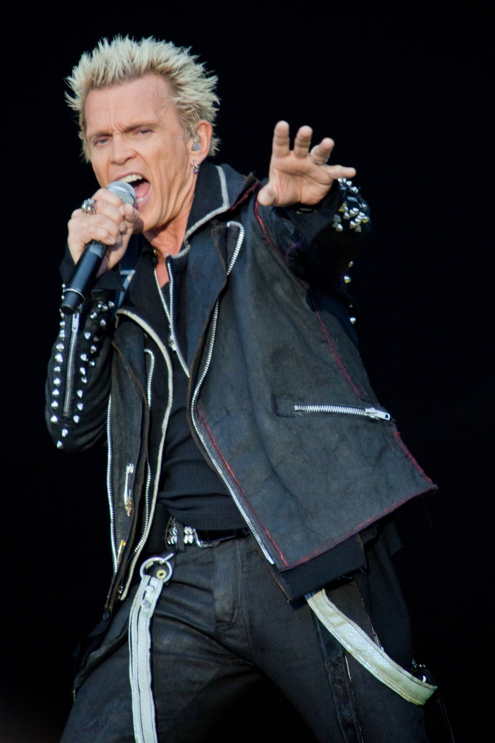 Billy Idol, Peace And Love Festival 2012.